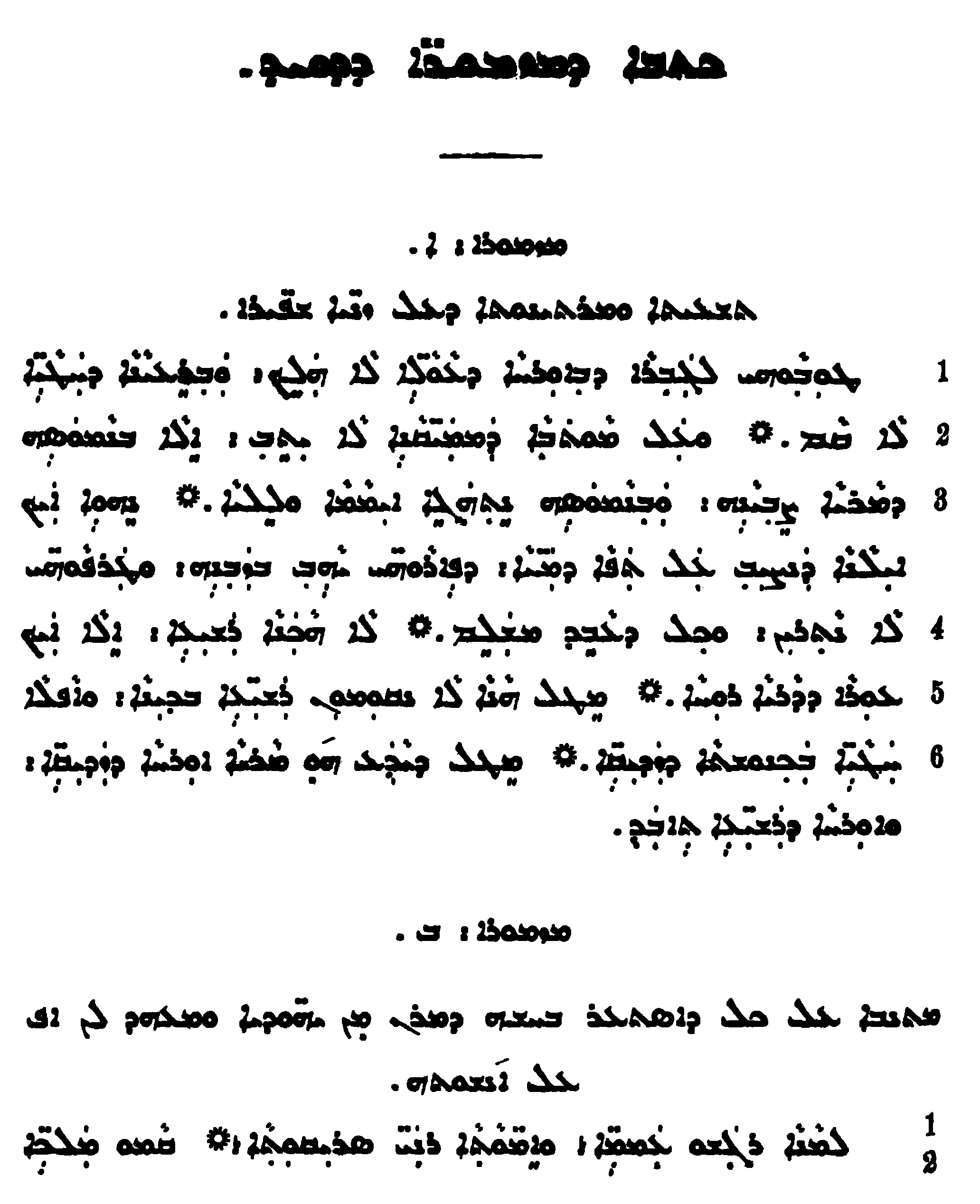 psalms in Aramaic